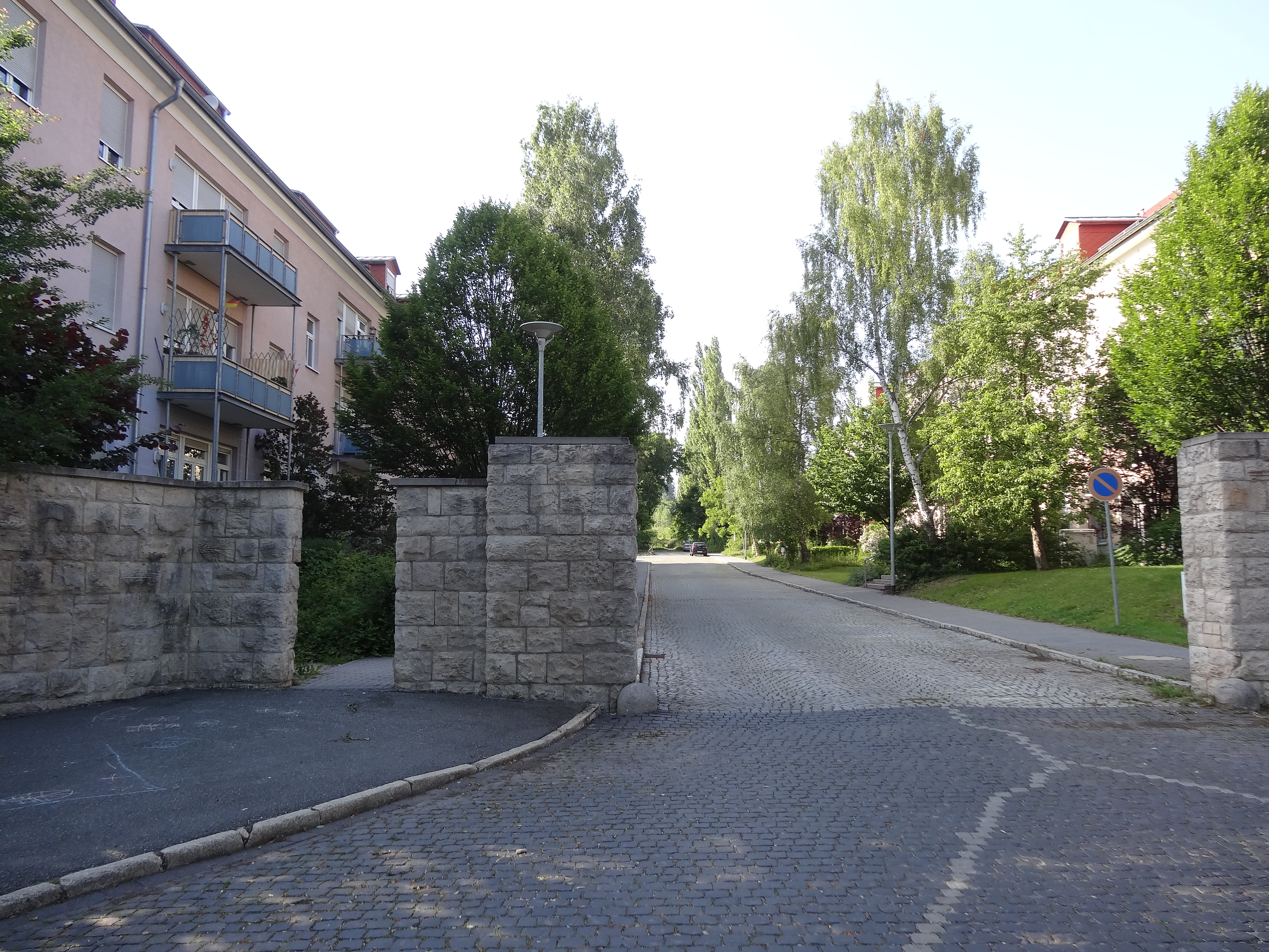 Modernized building in Lützendorf, Weimar in Thuringia, Germany